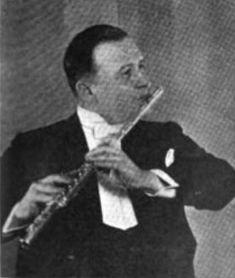 Otto E Kruger , circa 1923